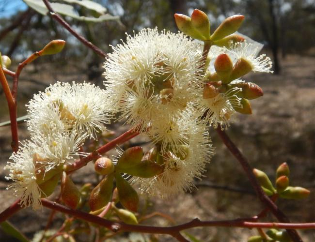 Flower buds and flowers of Eucalyptus microcarpa, taken near West Wimmera, near Mount Arapiles-Tooan State Park